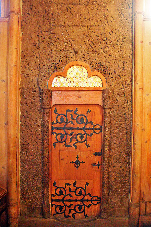 Church Wang in Karpacz (Poland).